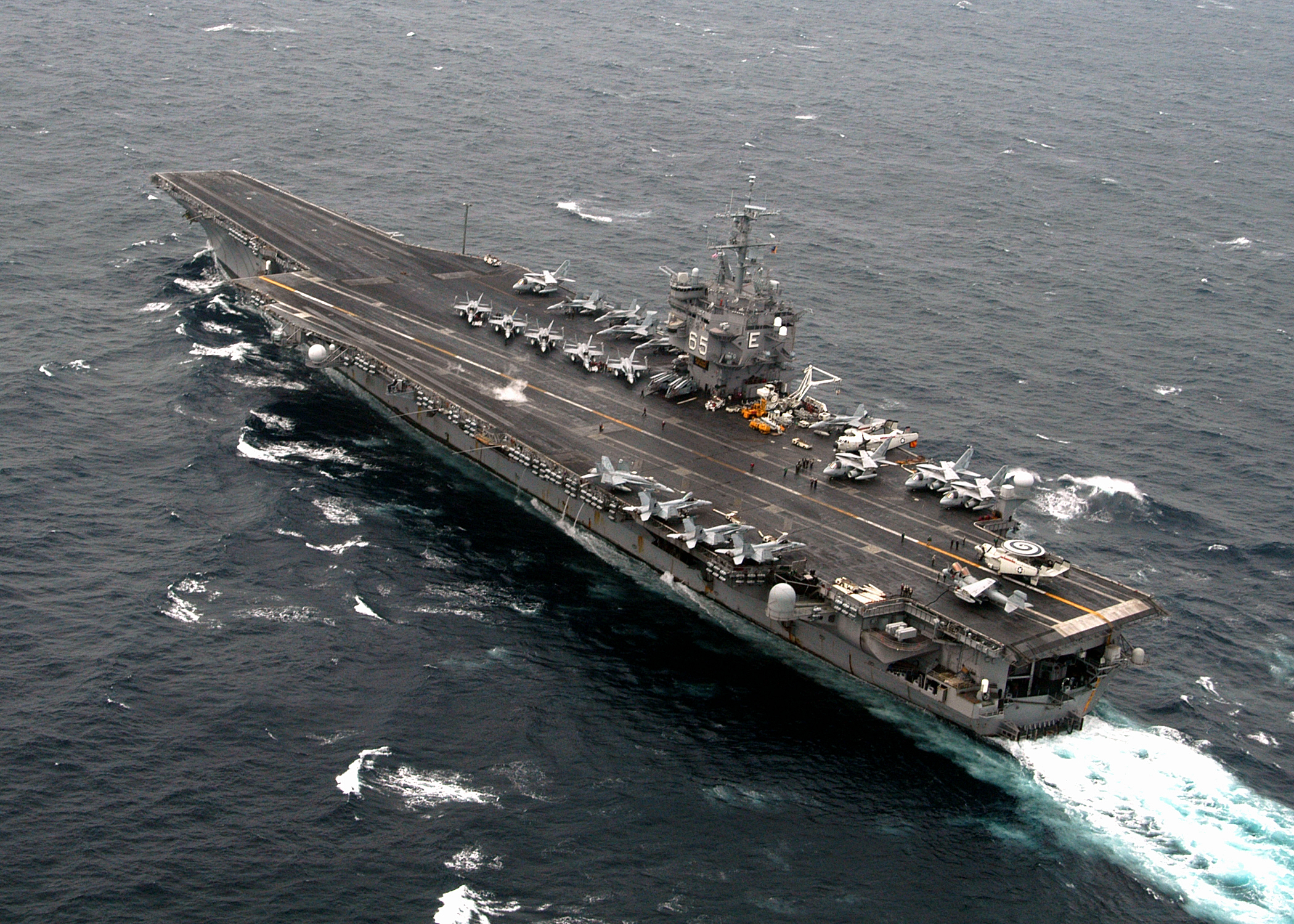 North Atlantic Ocean (July 7, 2004) - USS Enterprise (CVN 65) steams through the waters of the Atlantic Ocean following a port visit to Portsmouth, England. Enterprise Sailors enjoyed four-days in Portsmouth, the resting place for HMS Victory, the oldest commissioned warship in the world, which is now a floating museum attracting thousands of tourists each year. The ship is underway in the Atlantic Ocean in support of Summer Pulse '04. Summer Pulse 2004 is the simultaneous deployment of seven carrier strike groups (CSGs), demonstrating the ability of the Navy to provide credible combat across the globe, in five theaters with other U.S., allied, and coalition military forces. Summer Pulse is the Navy's first deployment under its new Fleet Response Plan (FRP). U.S. Navy Photo by Photographer's Mate Airman Rob Gaston. (RELEASED) For more information go to